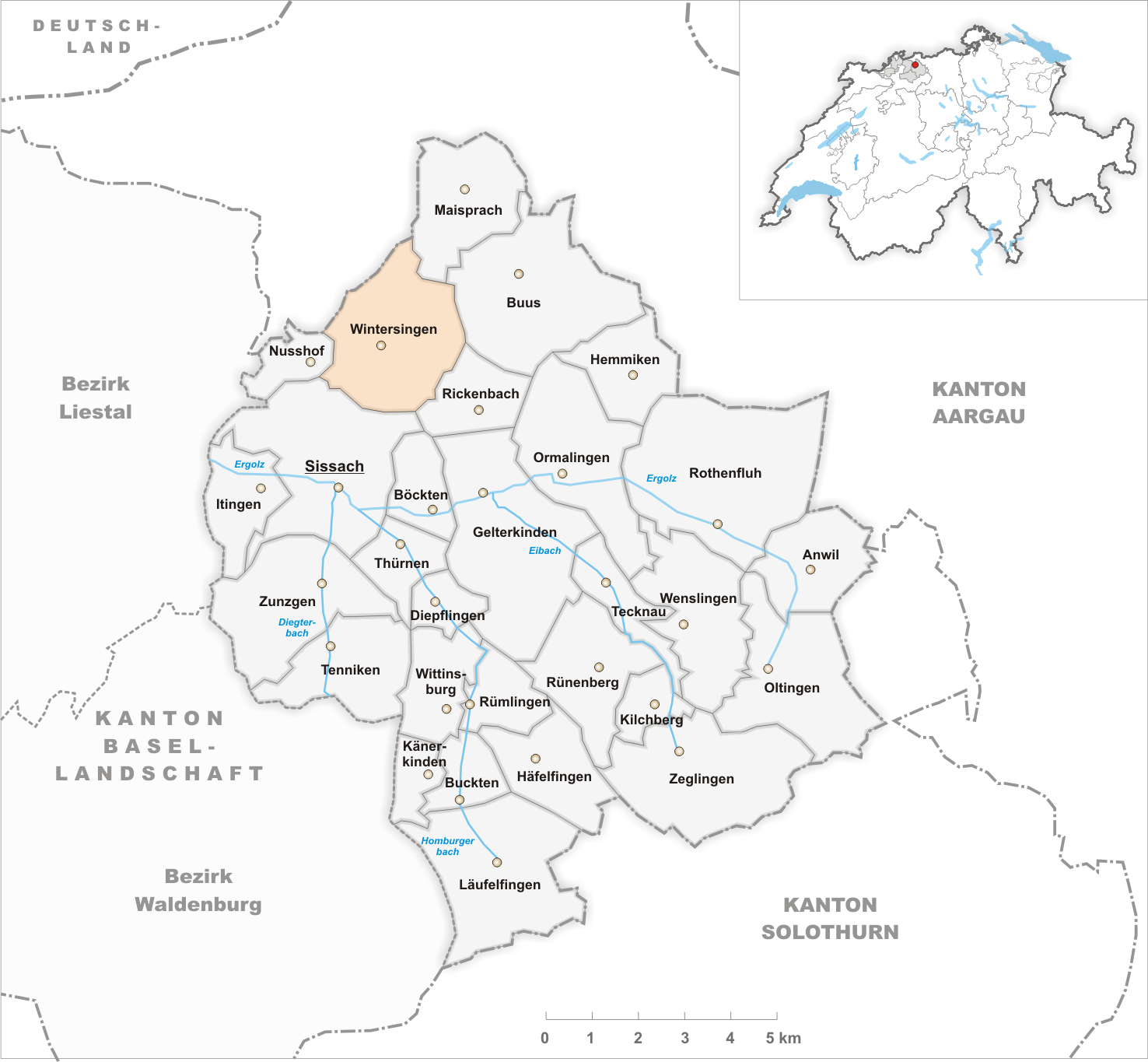 Municipality Wintersingen